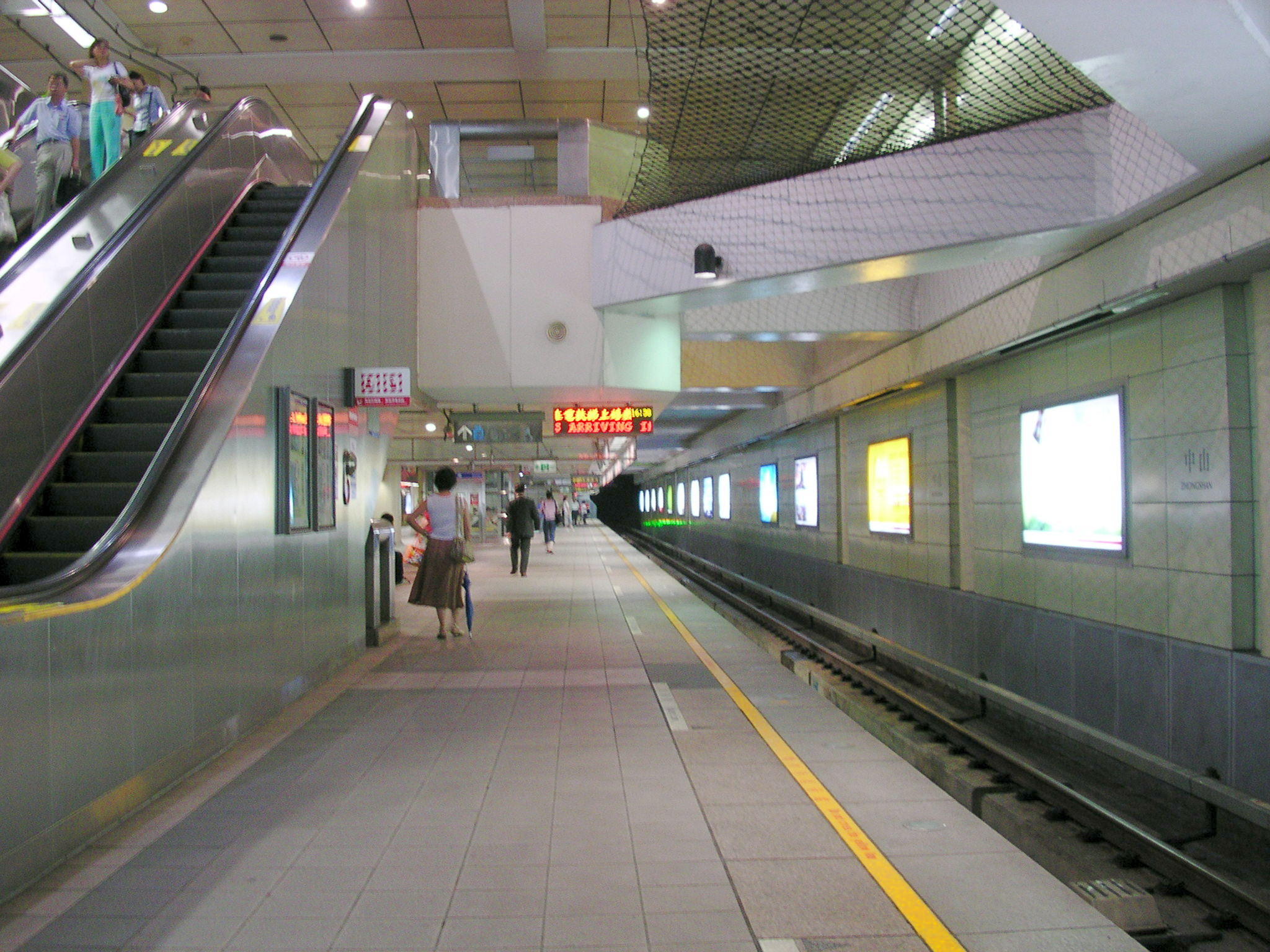 Inside Taipei MRT Zhongshan Station, Photographed in Taipei MRT Zhongshan Station.